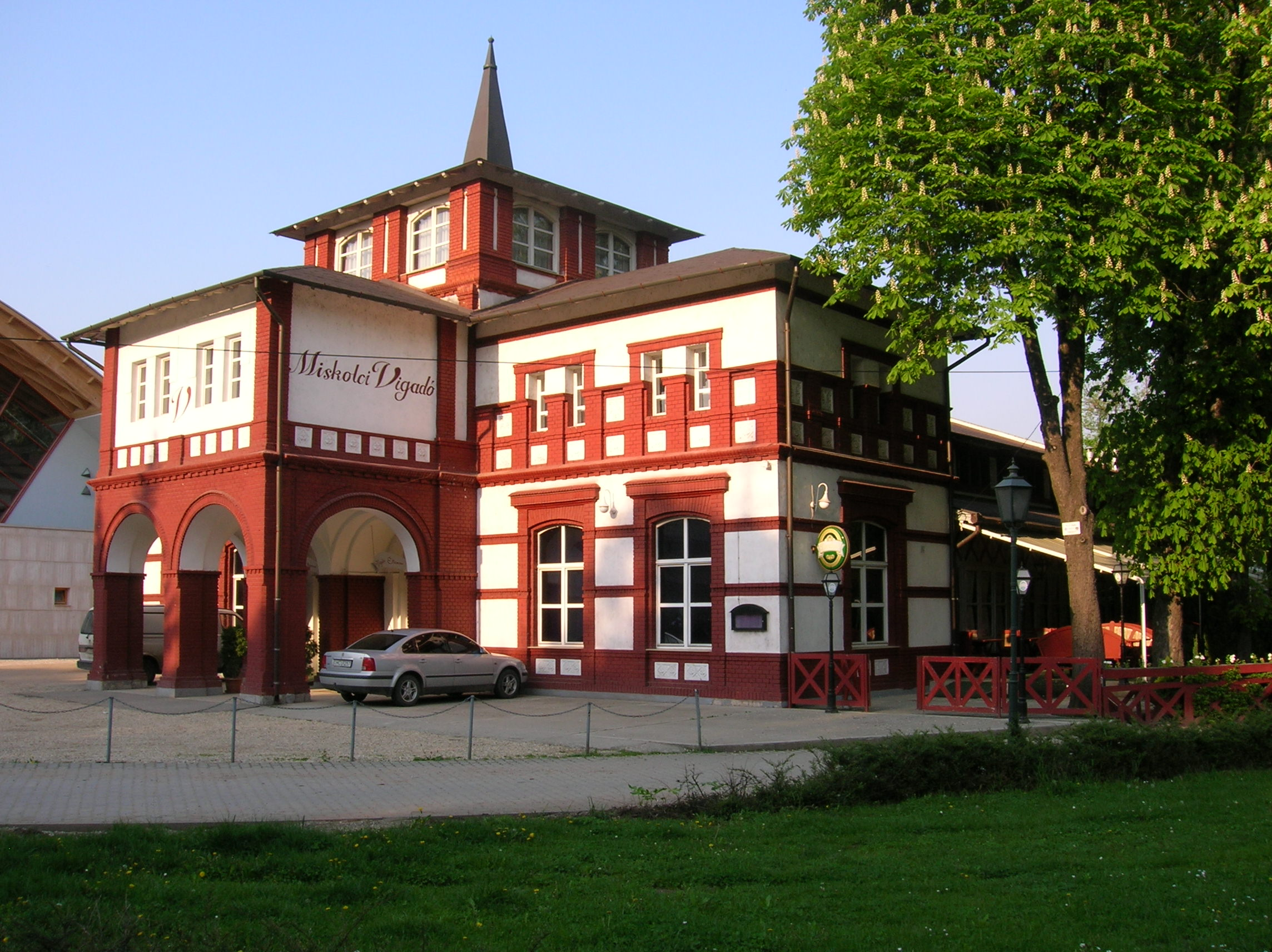 Vigadó restaurant. Népkert ("People's Garden") public park, Miskolc, Hungary.